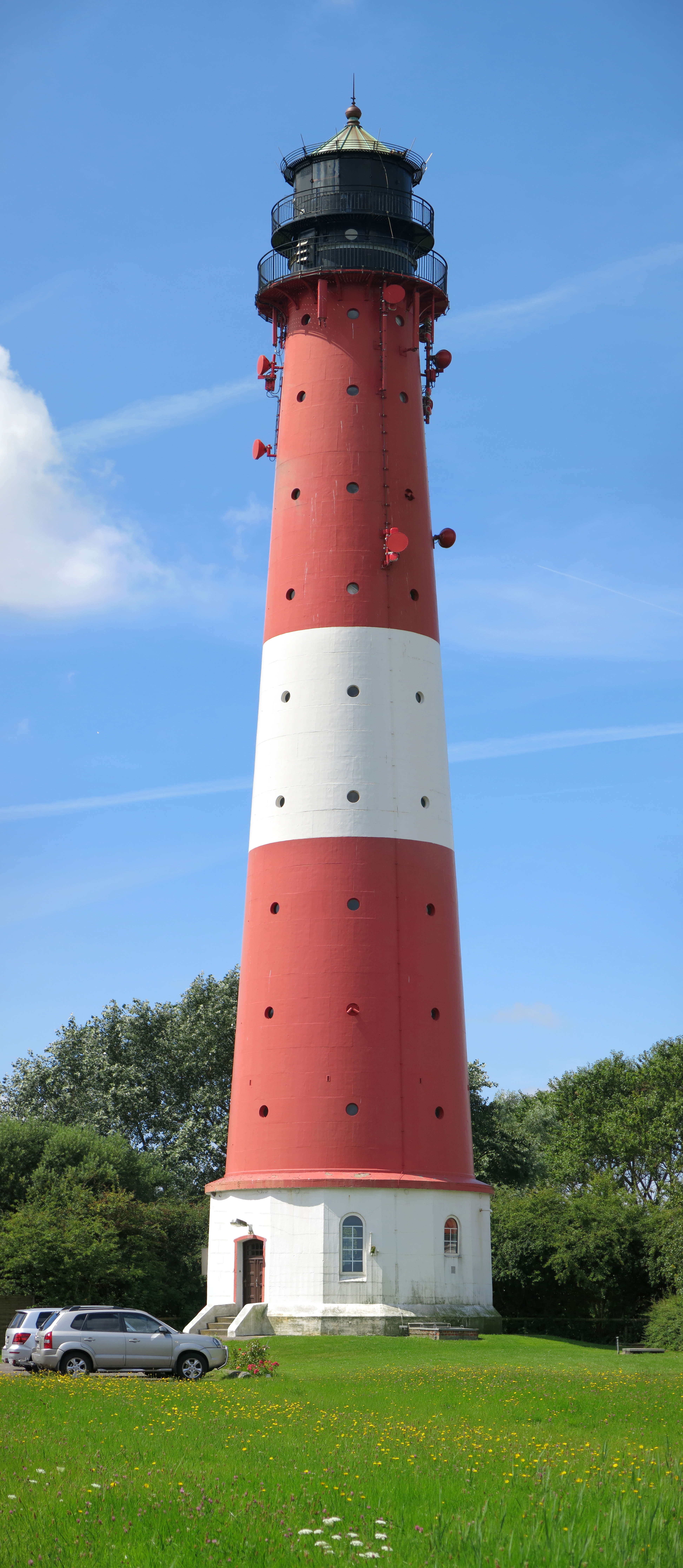 Lighthouse of Pellworm on the coast of the North Sea, sen from east